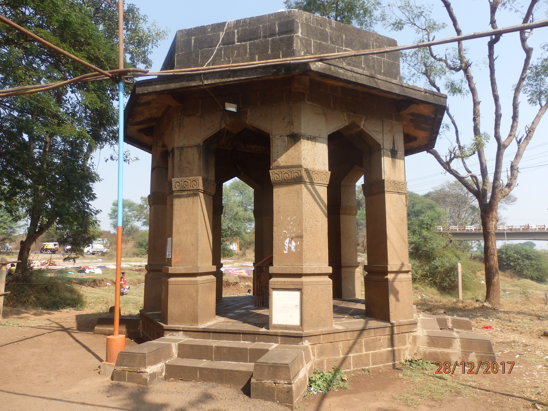 Memorial of Narayanrao Babasaheb Ghorpade, Ichalkaranji